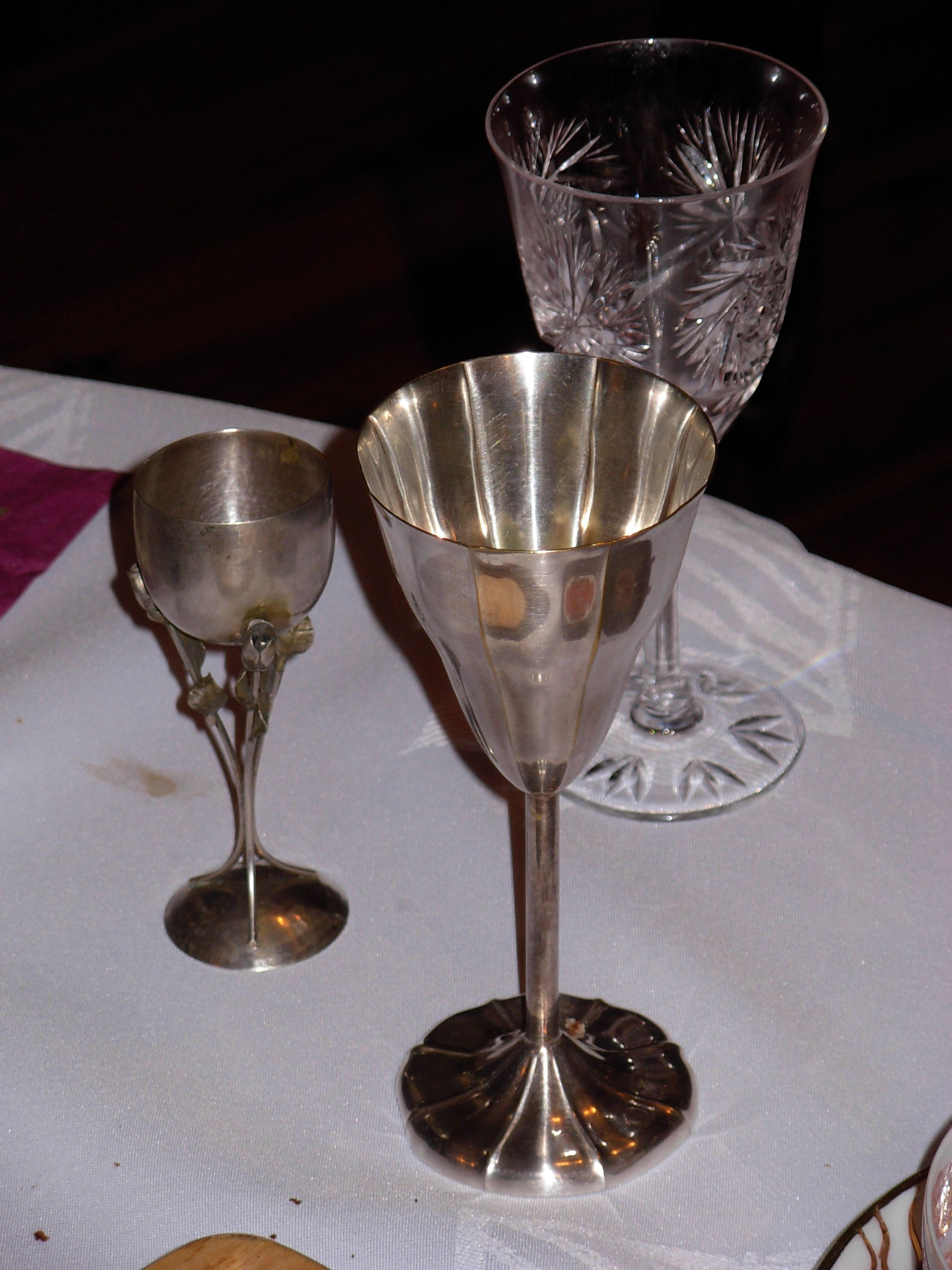 Cocktail glasses - not always made of glass. Photo by myself.